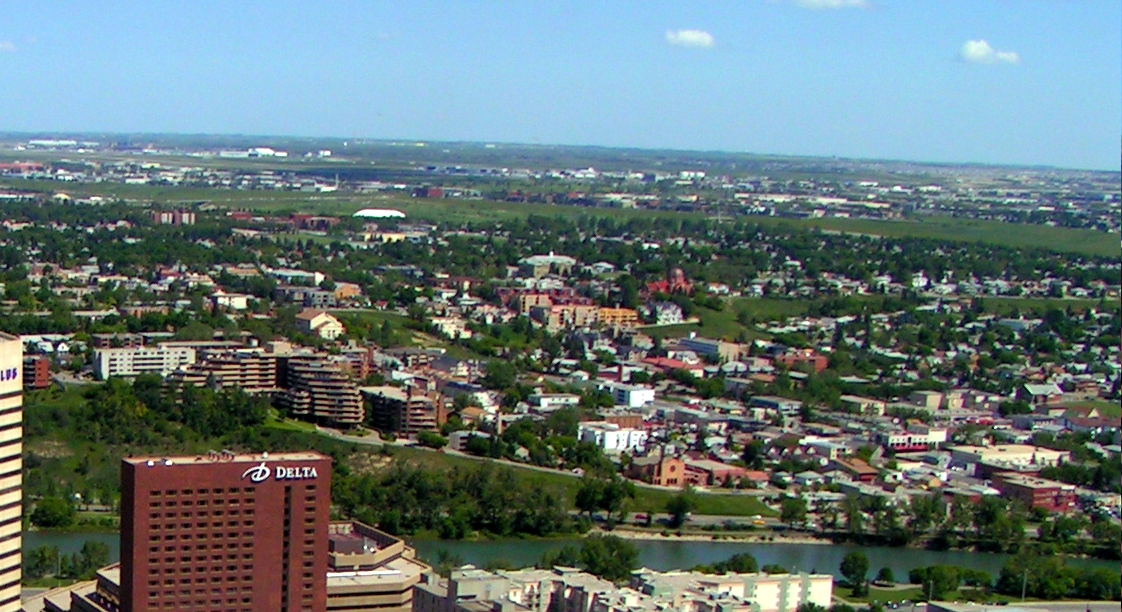 View from Calgary Tower, Calgary, Alberta, Canada, with Bow River and neighbourhood of Bridgeland